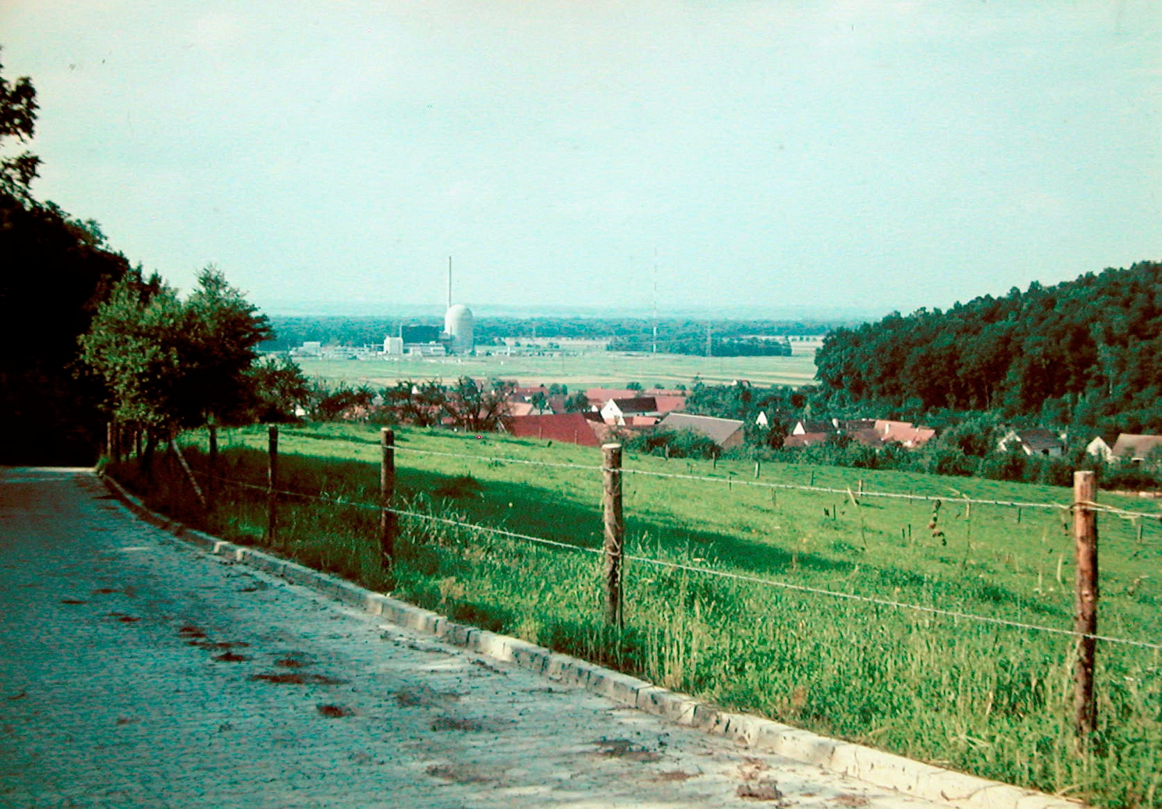 Nuclear power plant Gundremmingen.